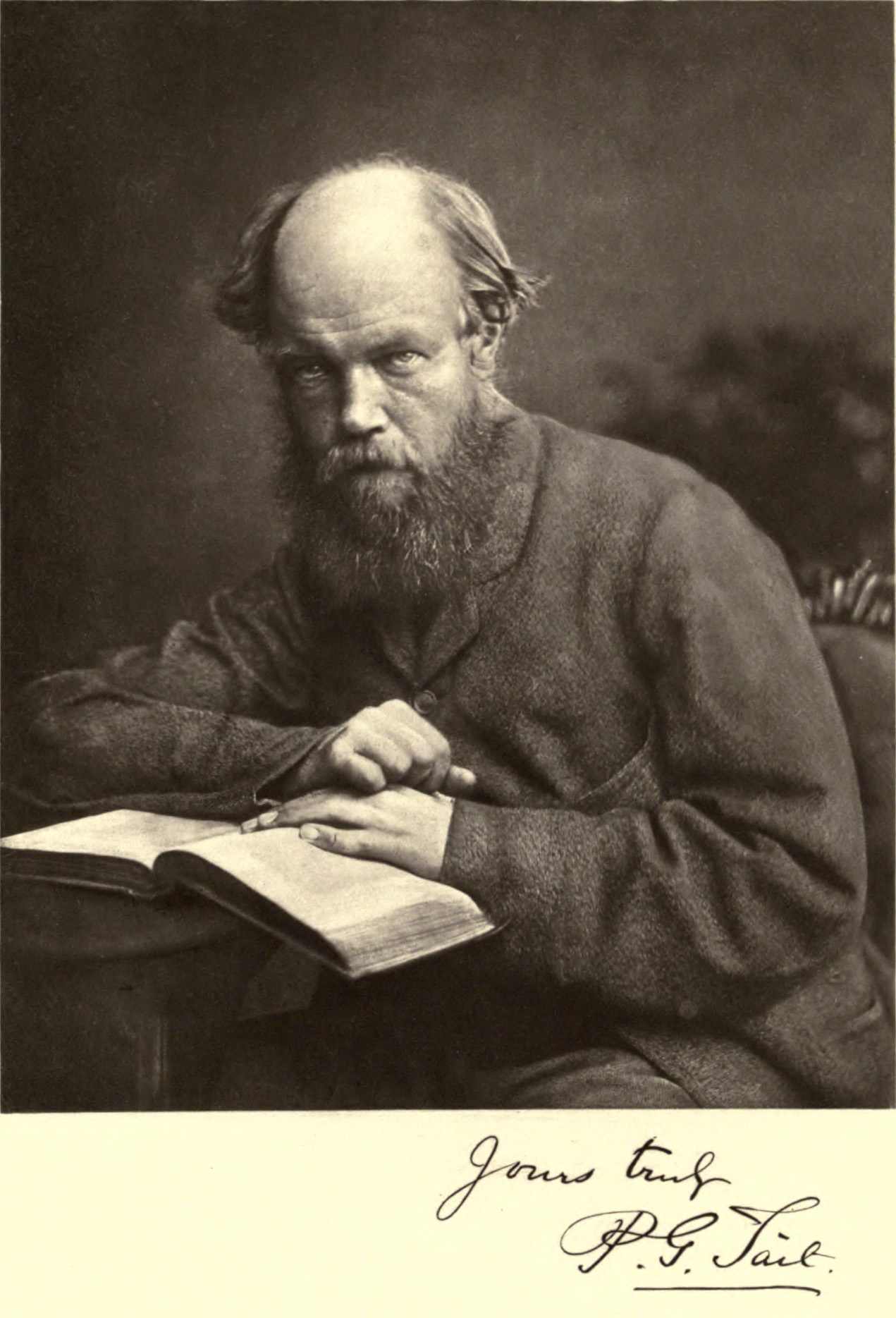 Picture of Peter Guthrie Tait, the Scottish physicist